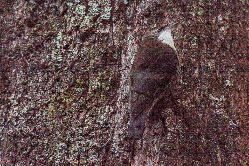 White-throated Treecreeper (Cormobates leucophaea)